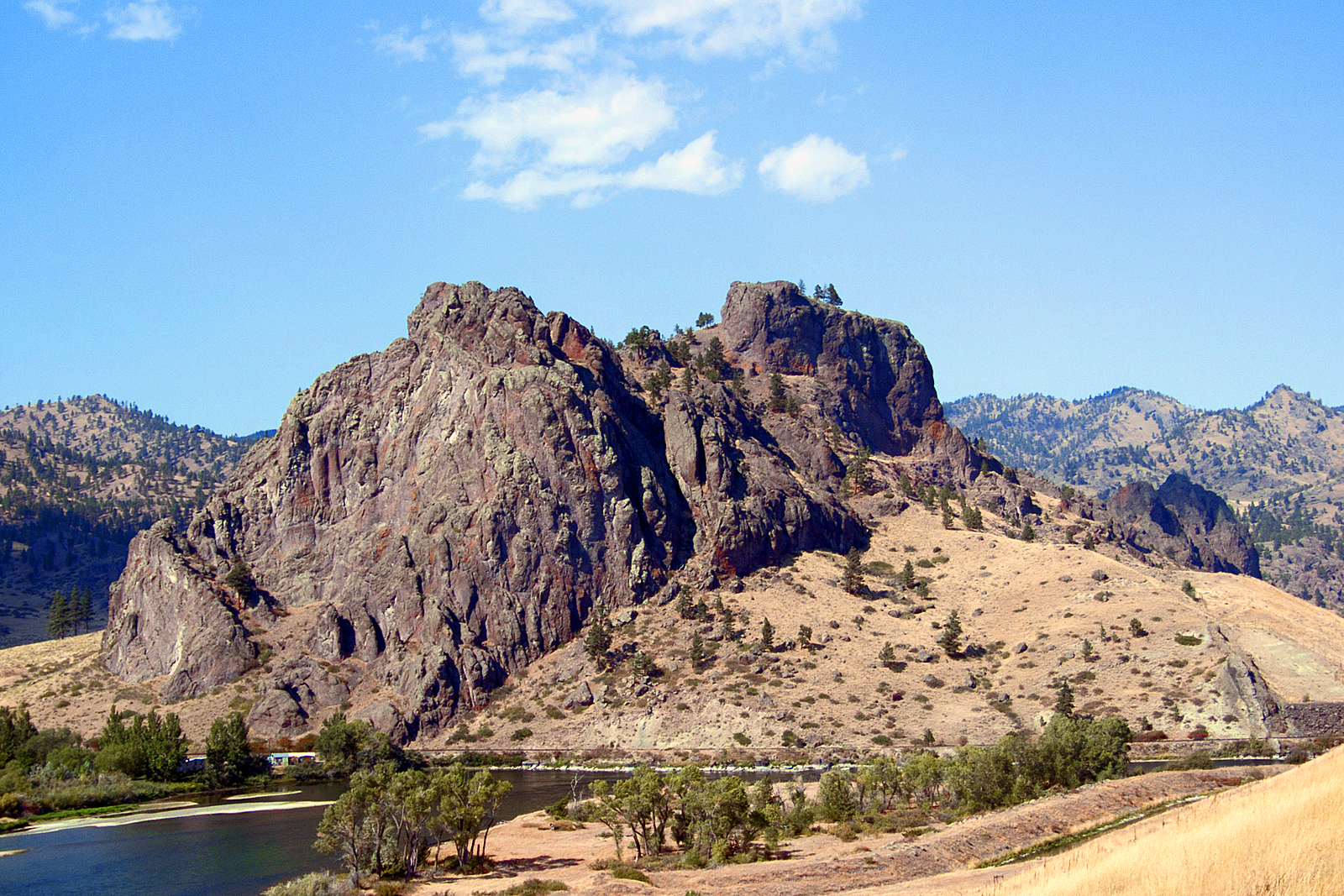 Tower Rock — Cascade County, Montana. Image taken facing due west, showing southern end and east side of formation